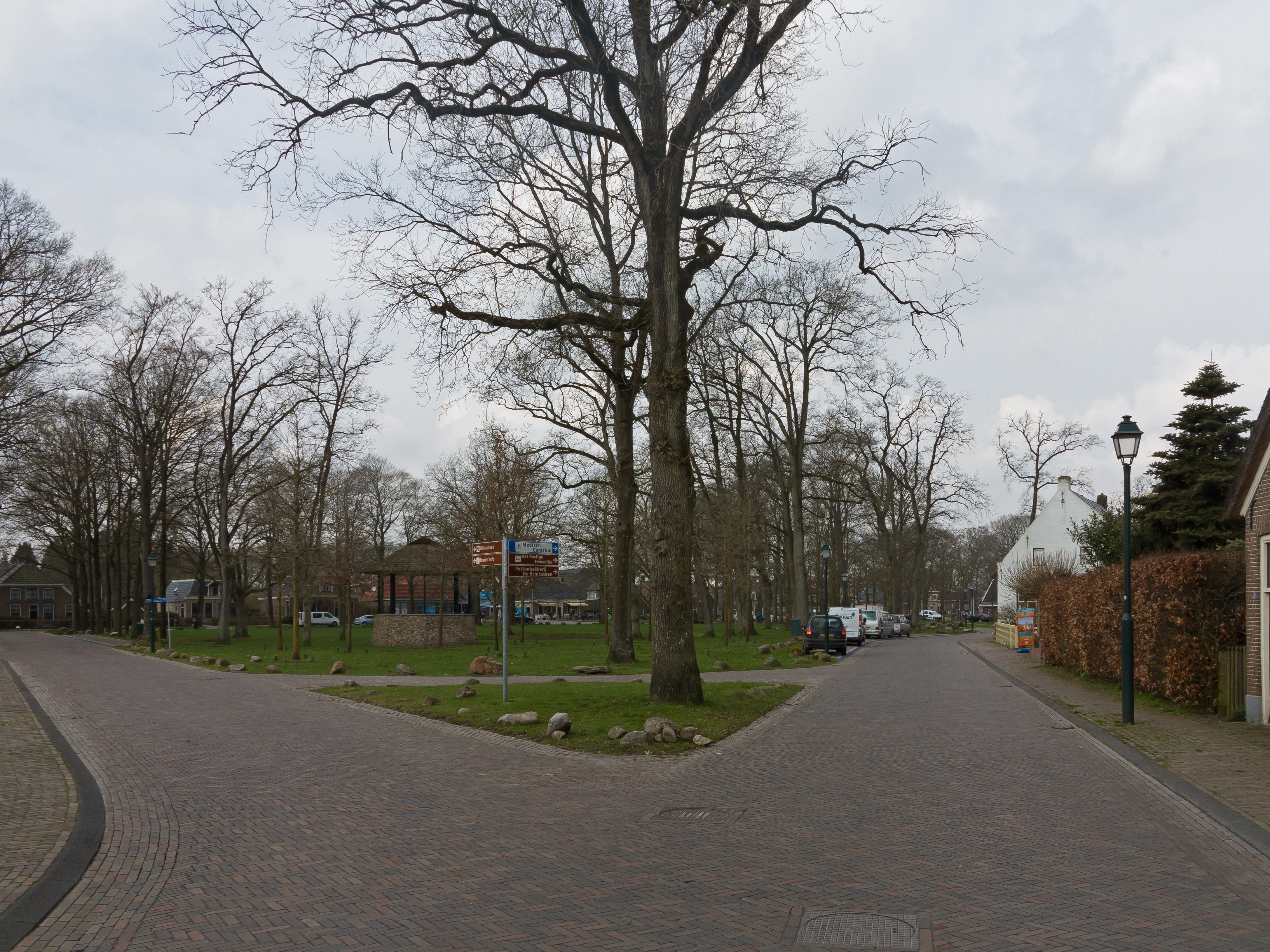 Dwingeloo, street view near de Brink